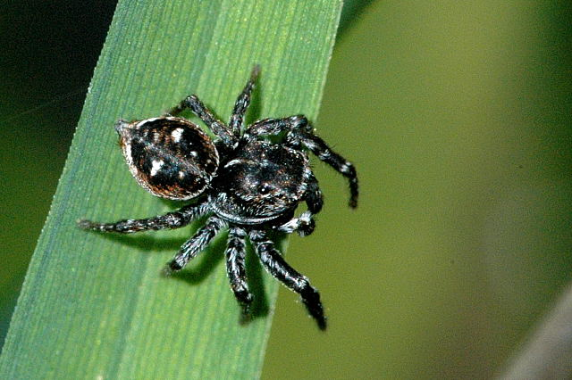 Sitticus floricola from Commanster, Belgian High Ardennes .